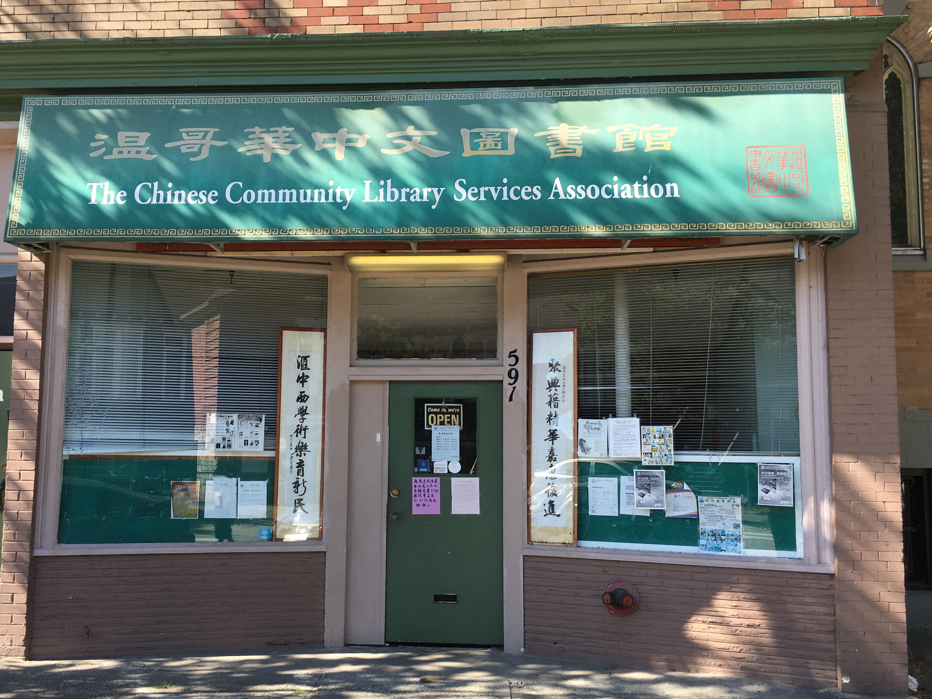 Chinese Community Library in Strathcona, Vancouver